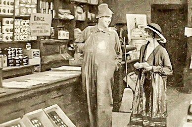 Film still from Casey at the Bat (1916) showing Casey (DeWolf Hopper) speaking to Angevine (Marguerite Marsh) in Hicks' General Store, where Casey works in Mudville.